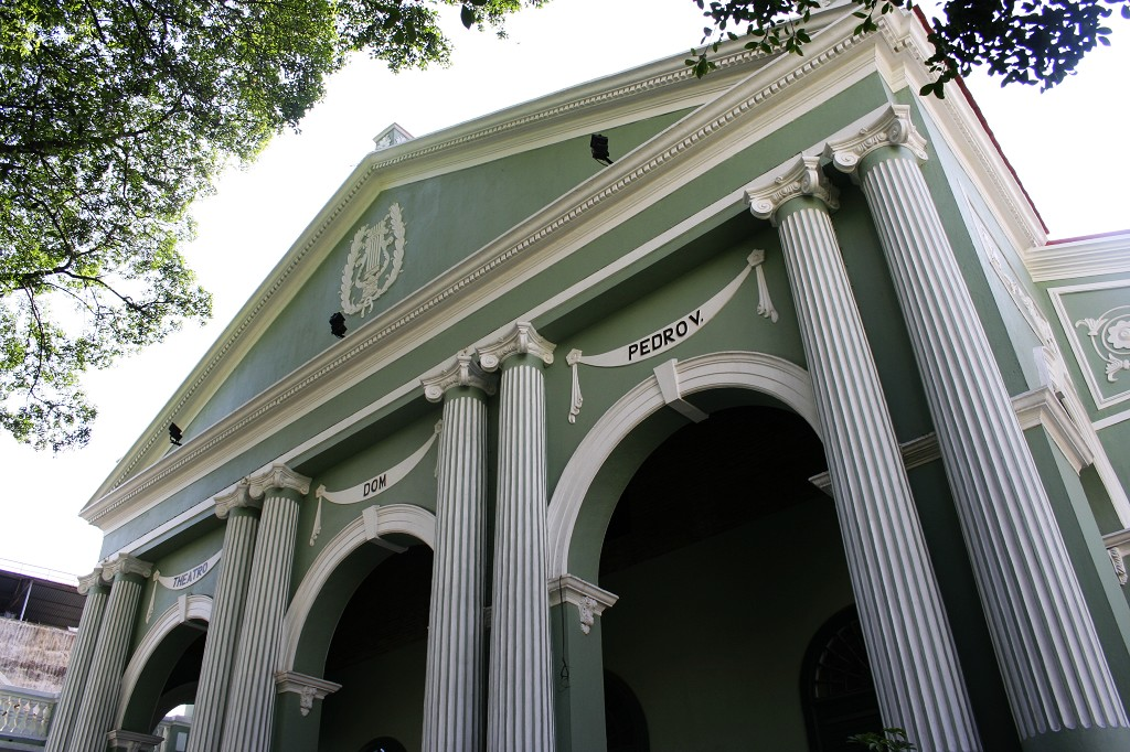 Dom Pedro V Theatre